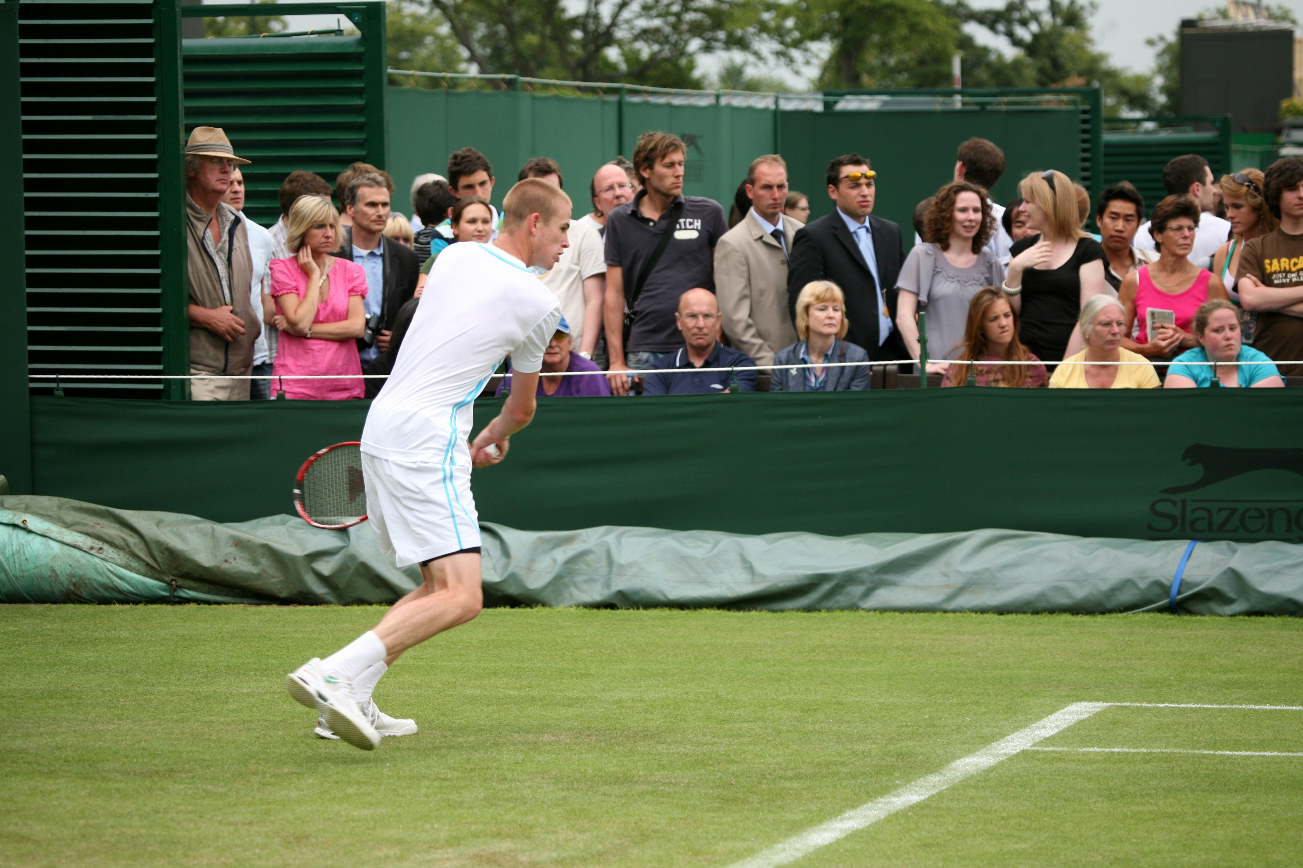 Kristof Vliegen against Nicolas Mahut in the 2009 Wimbledon Championships first round